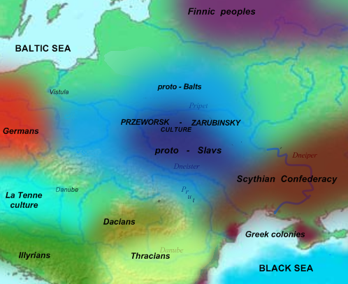 Created by Hxseek